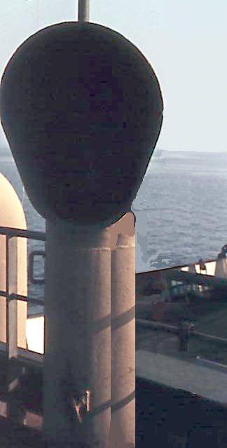 Cowl vent of a cargo ship